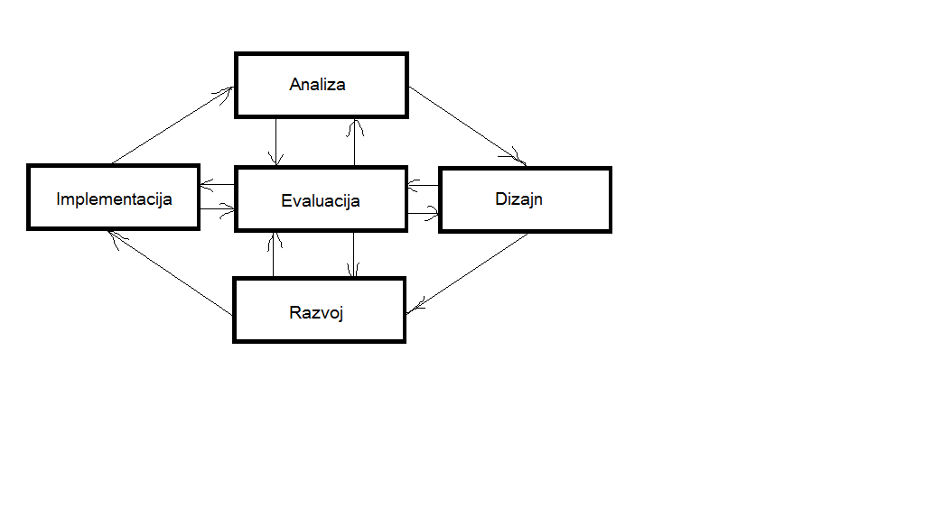 Combine ADDIE